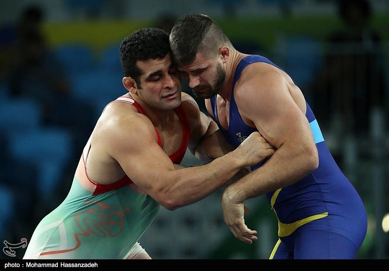 RIO DE JANEIRO (Tasnim) - Iranian wrestler Ghasem Rezaei defeated Sweden's Carl Fredrik Stefan Schoen early on Wednesday to win the bronze medal in the Men's Greco-Roman 98kg category at the Rio games.